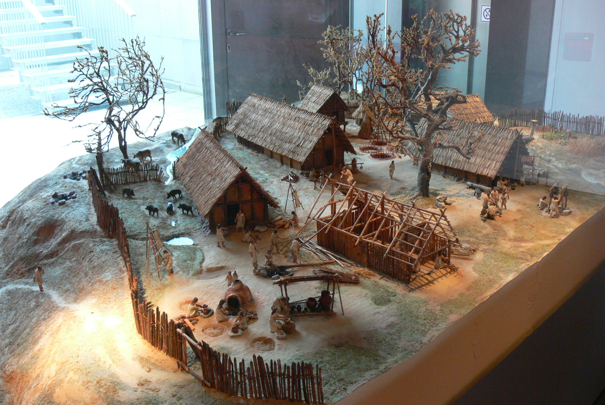 Wels ( Upper Austria ). City Museum - Minoritenkloster: Model of a neolithic village.